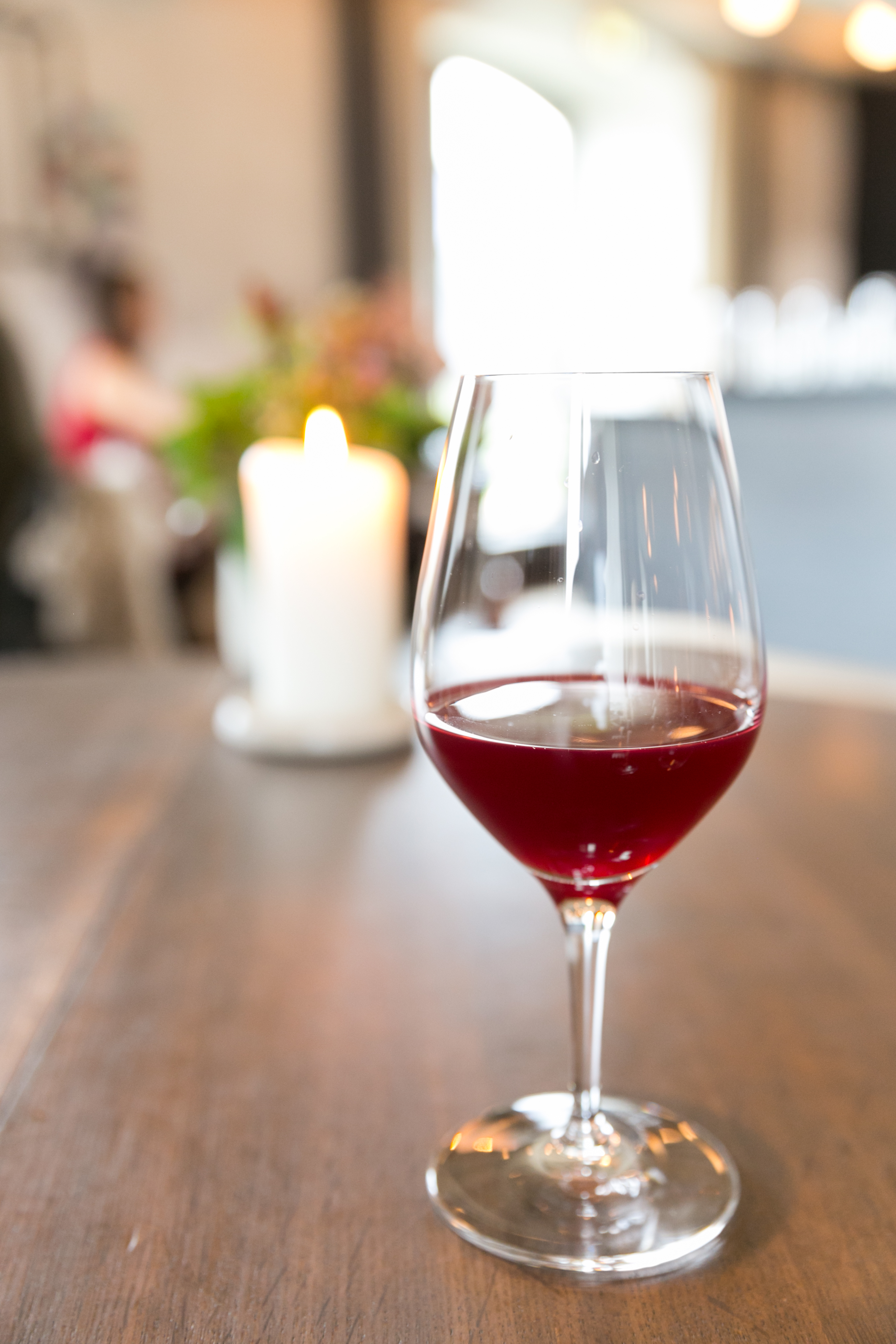 Noma, Copenhagen, DK Date Visited: September 26, 2014